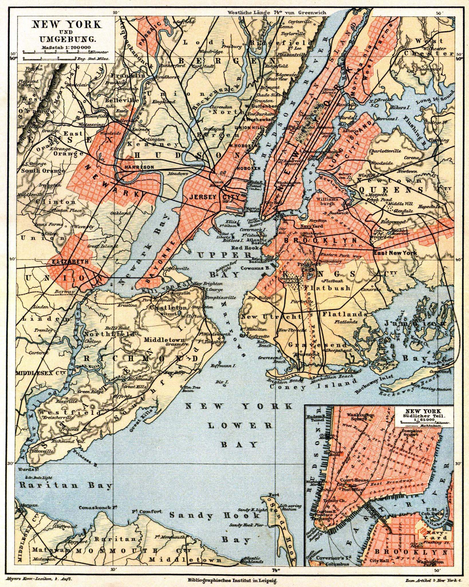 Old map of New York City, from 1885-1890, with labels in English, from German encyclopedia Meyers Konversations-Lexikon.